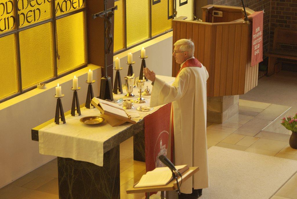 holy sacrament of the altar